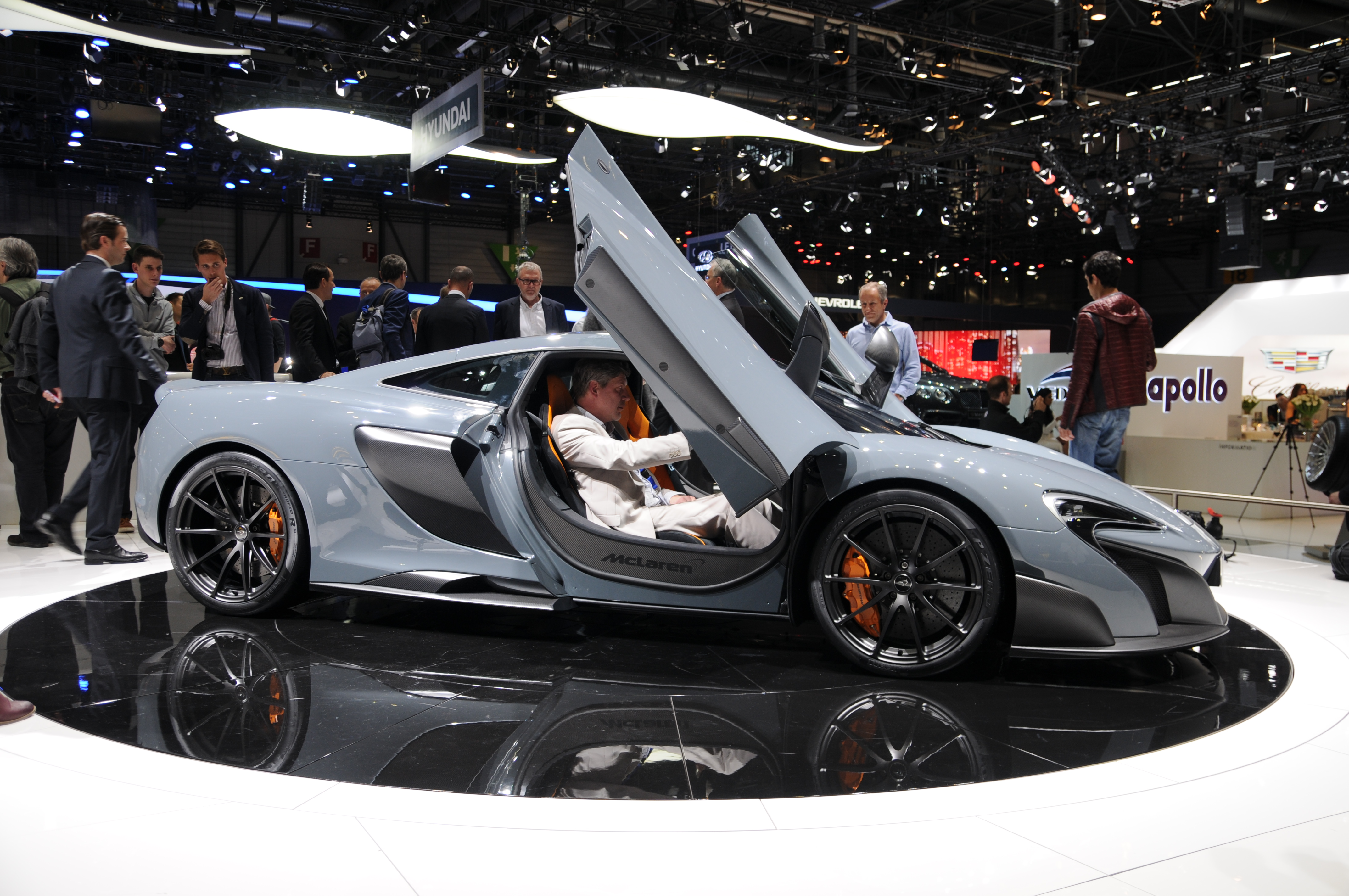 Geneva Motor Show 2015 (photo taken on the first press day)